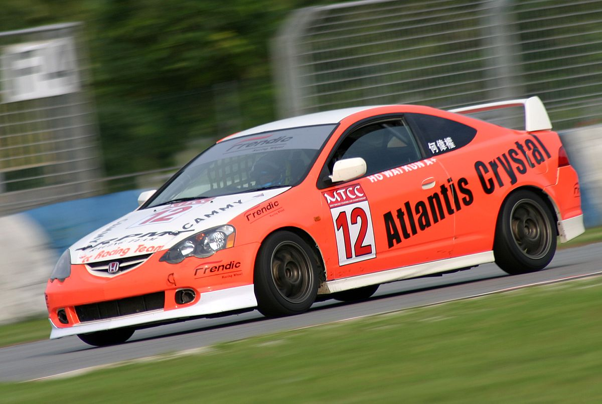 Henry Ho driving his Honda Integra DC5 at Zhuhai International Circuit in the Macau Touring Car Championship.